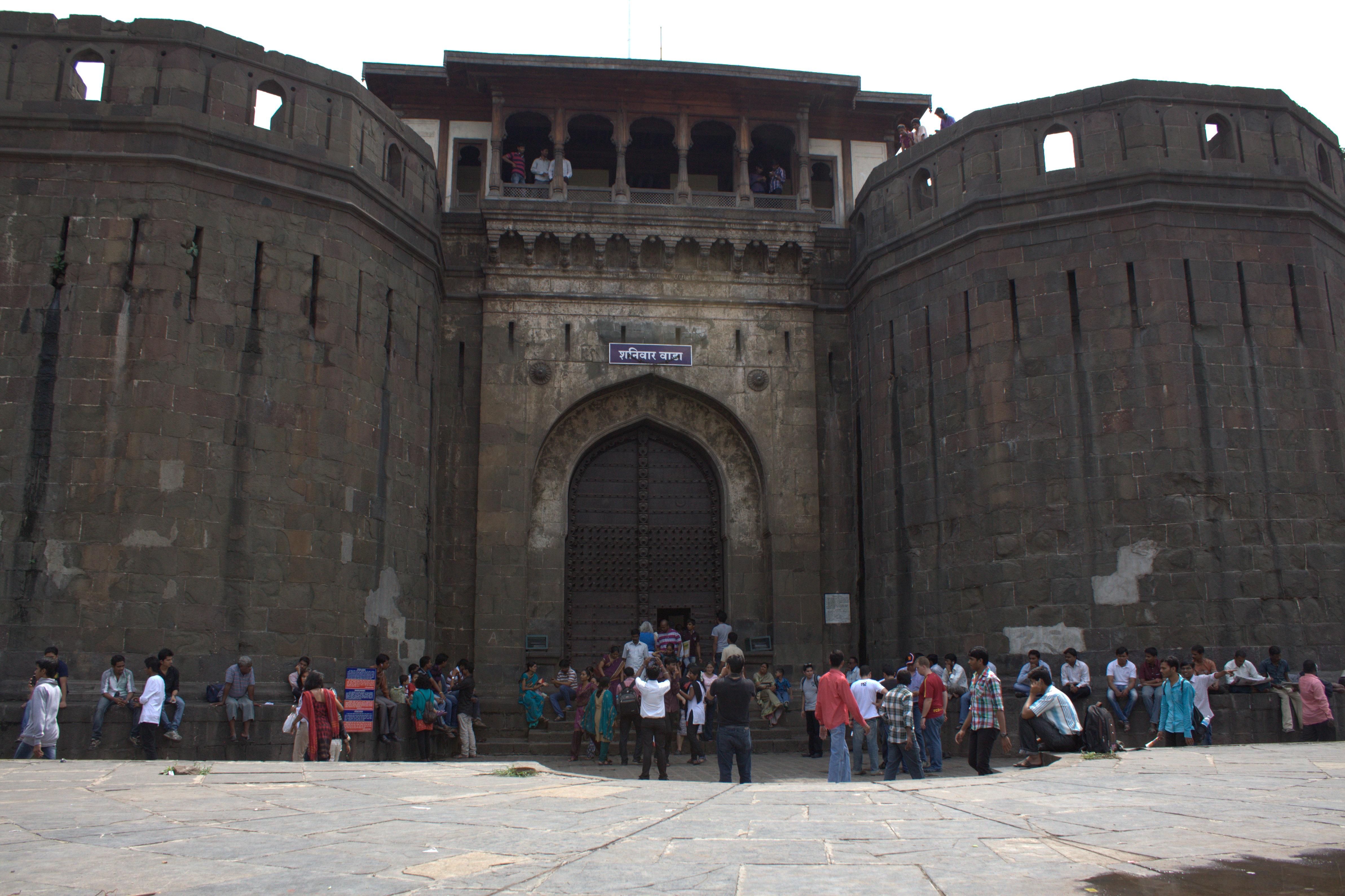 for of shivaji